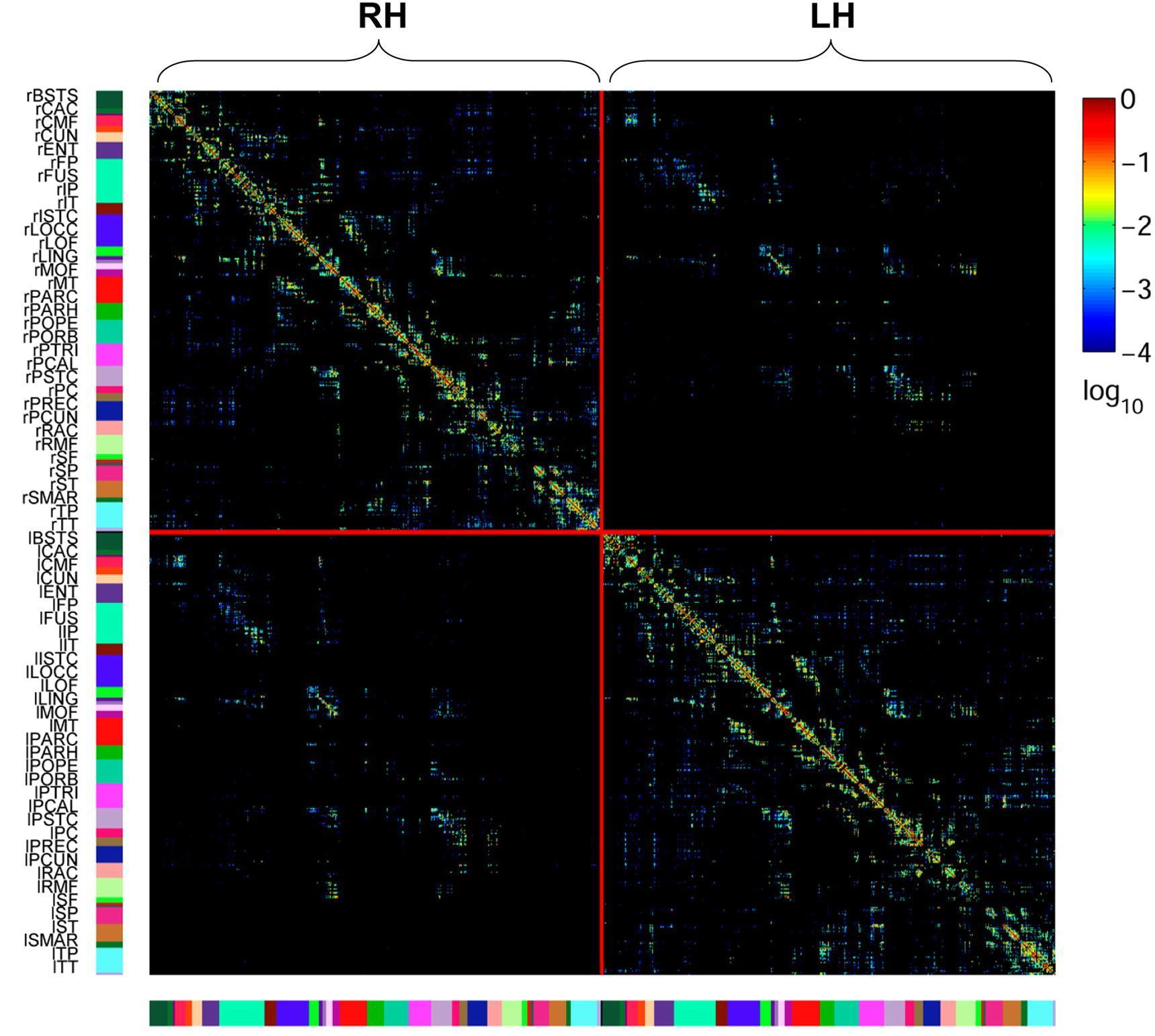 Connection matrix of human brain. Matrix of fiber densities (connection weights) between all pairs of n = 998 ROIs. ROIs are plotted by cerebral hemispheres, with right-hemispheric ROIs in the upper left quadrant, left-hemispheric ROIs in the lower right quadrant, and interhemispheric connections in the upper right and lower left quadrants. The color bars at the left and bottom of the matrix correspond to the colors of the 66 anatomical subregions. All connections are symmetric and displayed with a logarithmic color map.